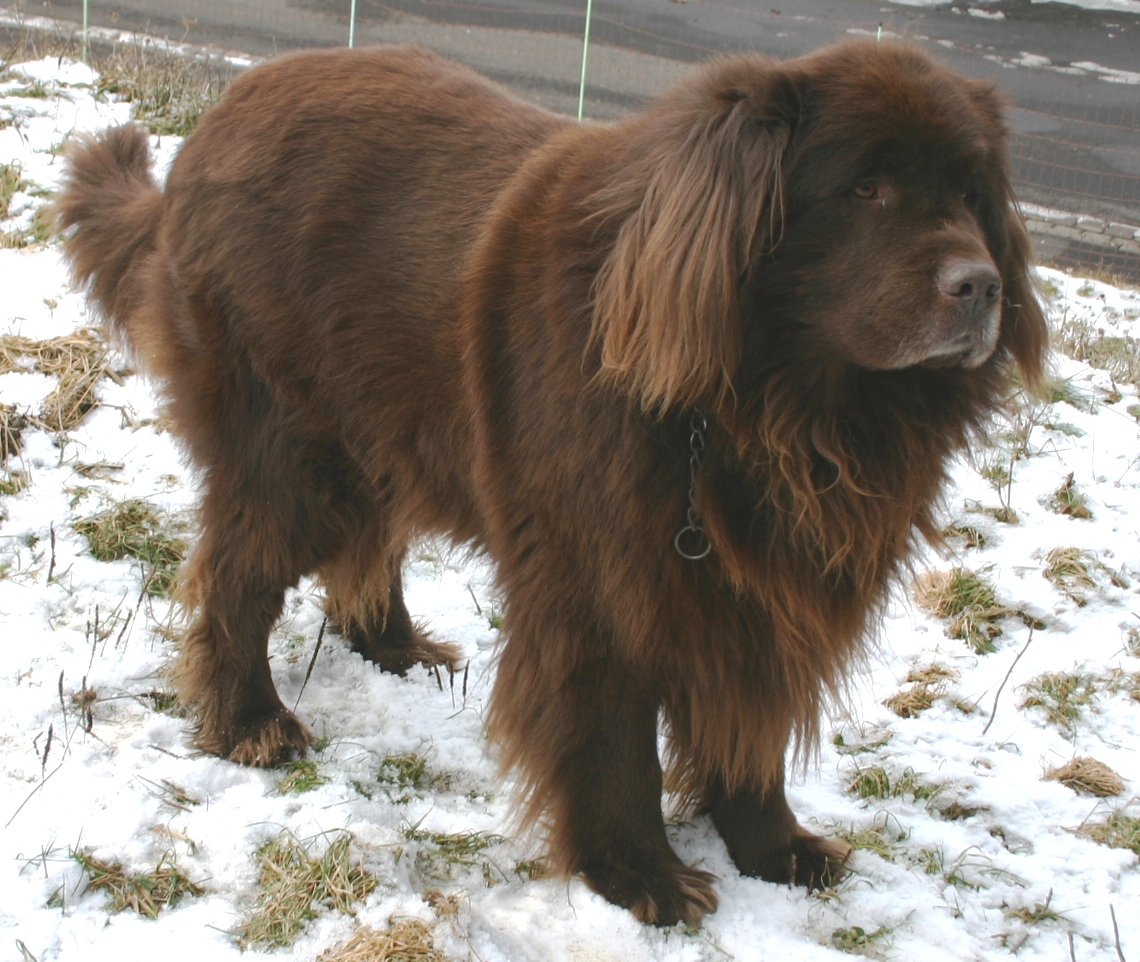 "Bernie", a brown Newfoundland.